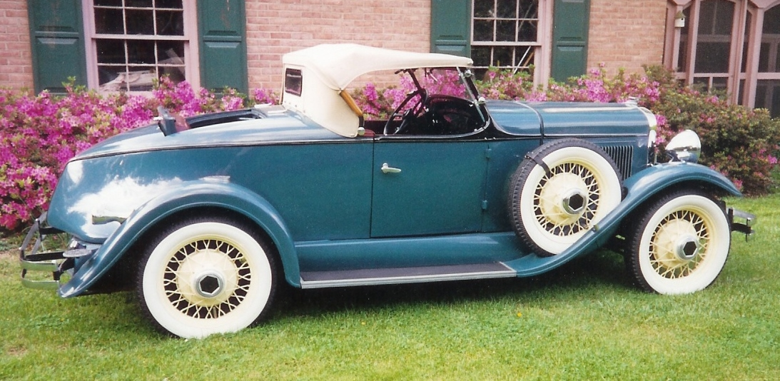 A "Boattail Speedster"